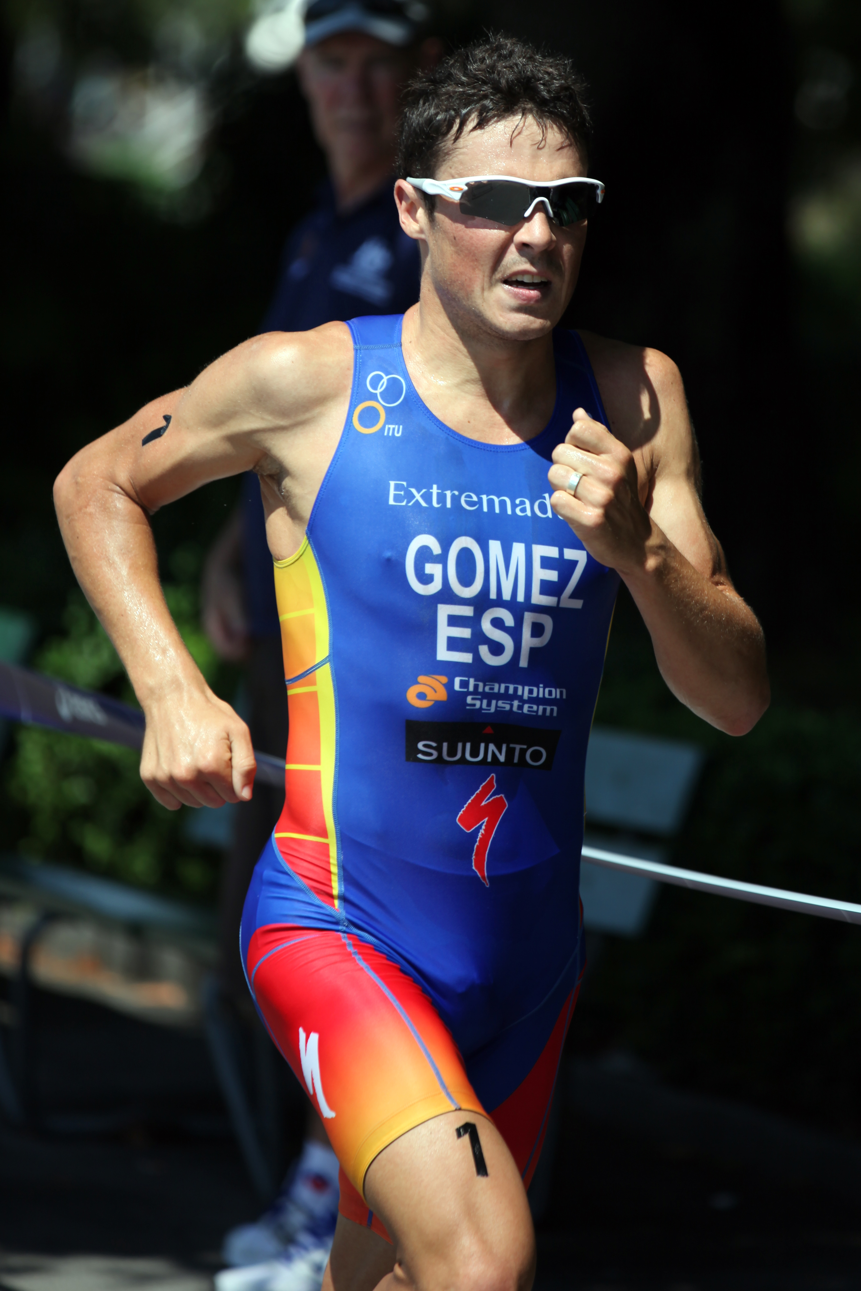 Francisco Javier Gómez at the Sprint World Championship in Lausanne.